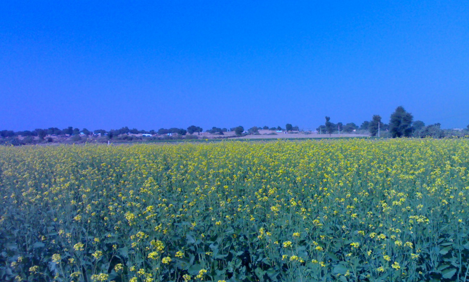 Mustard fields and village of 4 KLM, a small village in Gharsana tehsil of Sri Ganganagar district, Rajasthan, India.